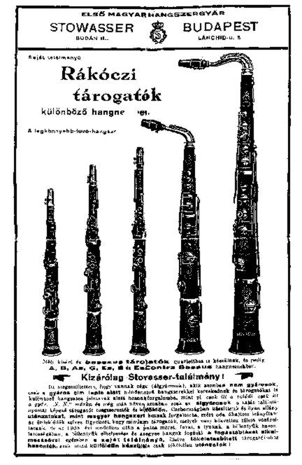 Advertisement by Stowasser showing various sizes of tárogató